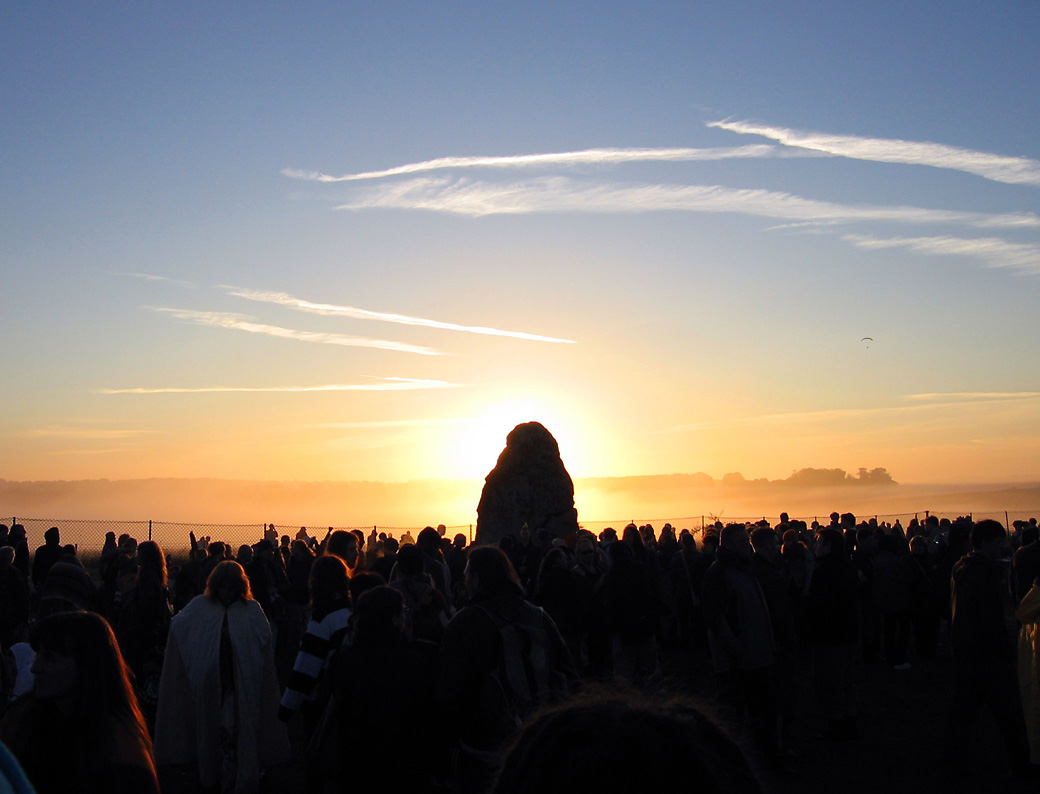 The sun behind the Heel Stone at Stonehenge, shortly after sunrise on the summer solstice. Keywords: Summer Solstice, Stonehenge, sunlight, Heel Stone.